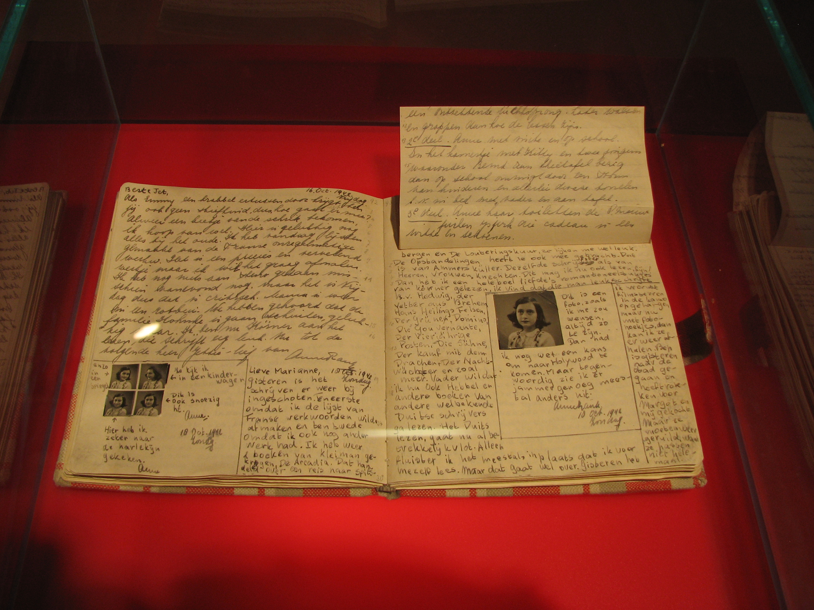 Pages 92–93 of Anne Frank original The Diary of a Young Girl, displayed at the Anne Frank House at Prinsengracht 263, Amsterdam, The Netherlands. Original discription from Flickr: This photo links to my blog article This photo is licenced under Creative commons (CC-BY) for use including commercial on condition that you link back to or credit See my profile for more detail.